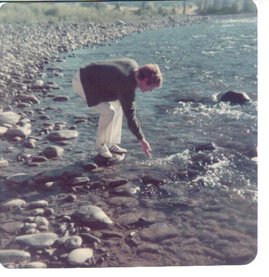 I took photo in August 1974 with Kodak camera.